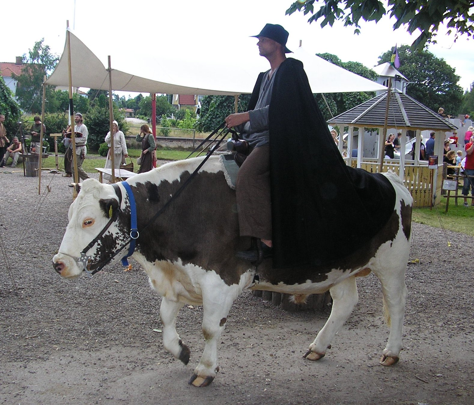 Sixten, an ox used for riding. Sixten weighs 1600 kg and can lift three times his own weight with his neck. This was taken before Chinese New Year Celebrations 2009.